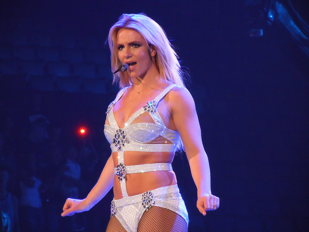 Britney Spears in Femme Fatale Tour in the city of Toronto.